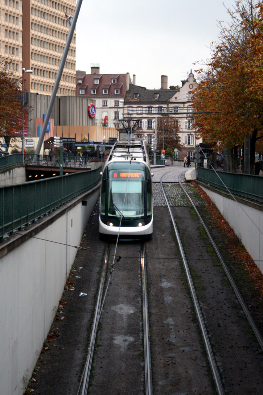 Strasbourg - Tramway